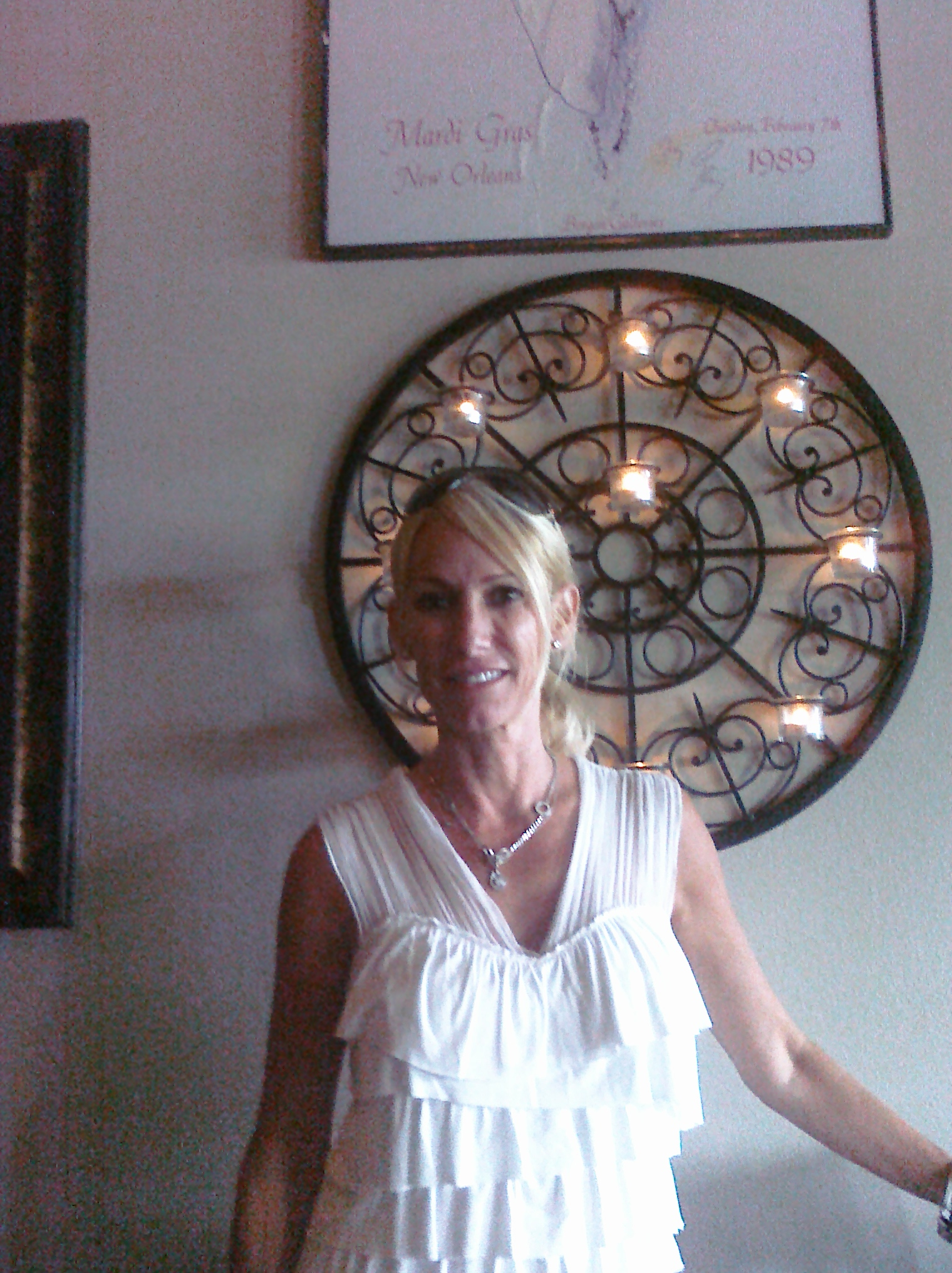 Debra Beebe from Survivor:_Tocantins